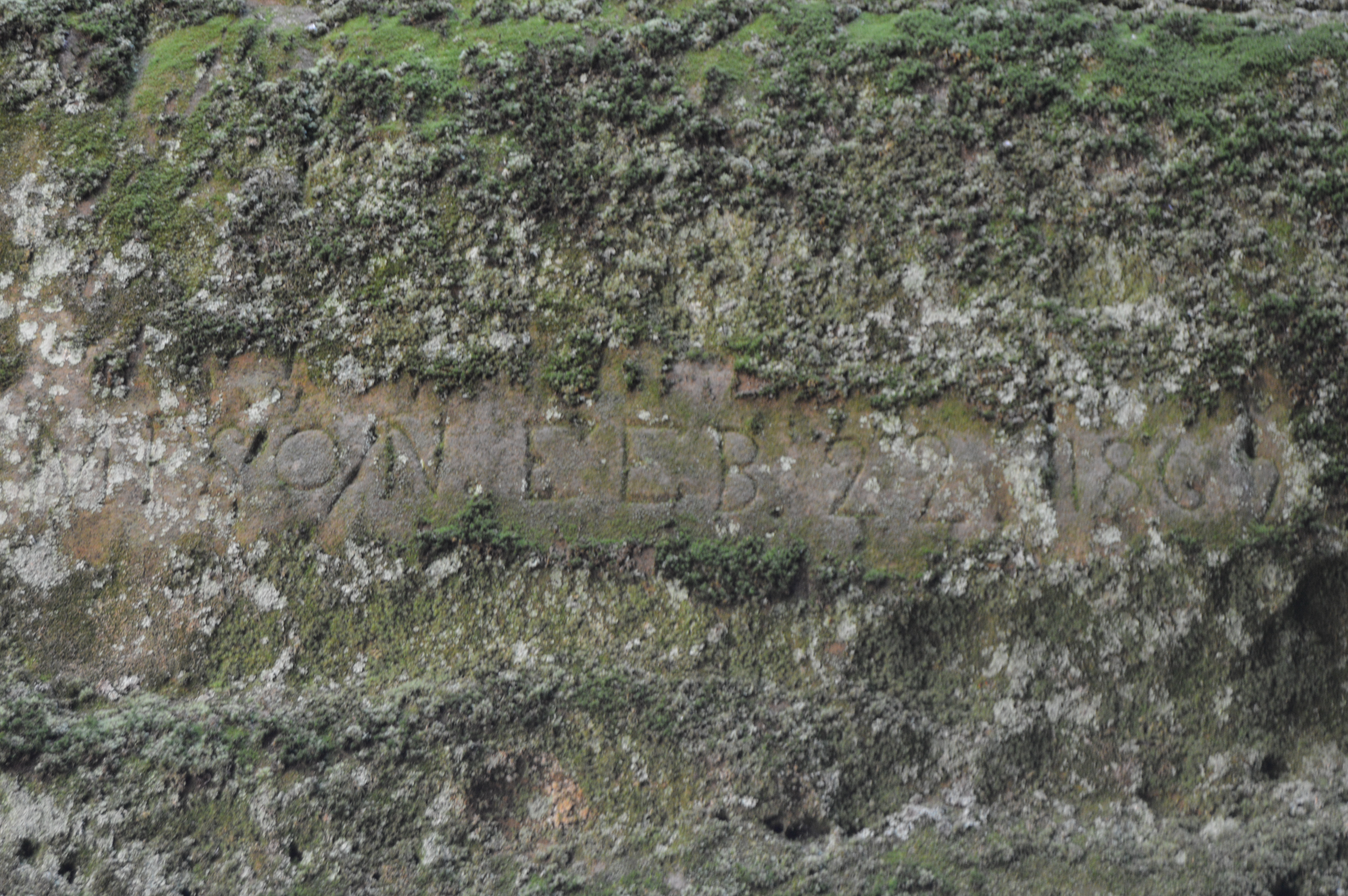 One of several Civil War-era inscriptions carven into the wall of the main nature trail at Giant City State Park in far northern Union County, Illinois, United States. The collection of inscriptions is listed on the National Register of Historic Places as the "Thompson Brothers Rock Art", because it is essentially the only surviving physical relic of Civil War strife between northern partisans and southern partisans in the region, as well as for the potential of using it to identify partisans.